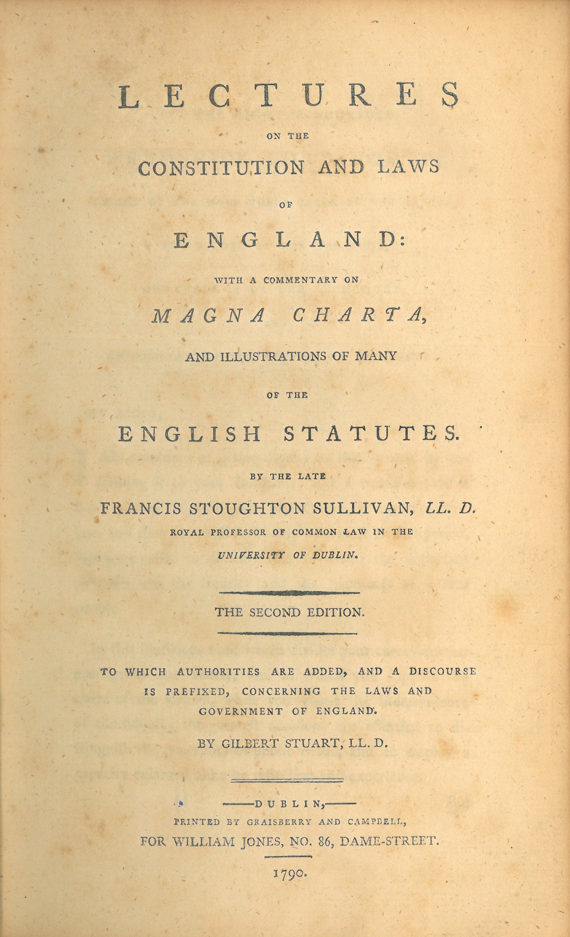 Title page of Francis Stoughton Sullivan (1790) Lectures on the Constitution and Laws of England: With a Commentary on Magna Charta, and Illustrations of Many of the English Statutes. By the Late Francis Stoughton Sullivan, LL.D. Royal Professor of Common Law in the University of Dublin. The Second Edition. To which Authorities are Added, and a Discourse is Prefixed, Concerning the Laws and Government of England. By Gilbert Stuart, LL.D. (2nd Irish ed.), Dublin: Printed by Graisberry and Campbell, for William Jones, No. 86, Dame-Street OCLC: 642108490.